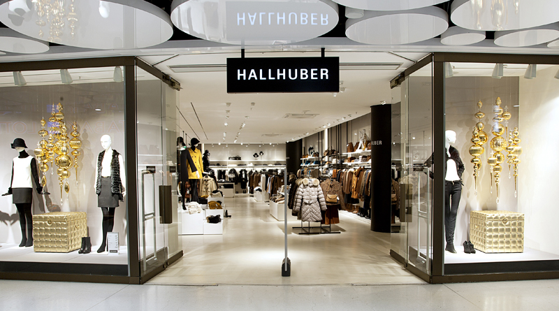 Hallhuber Filiale Stachus München